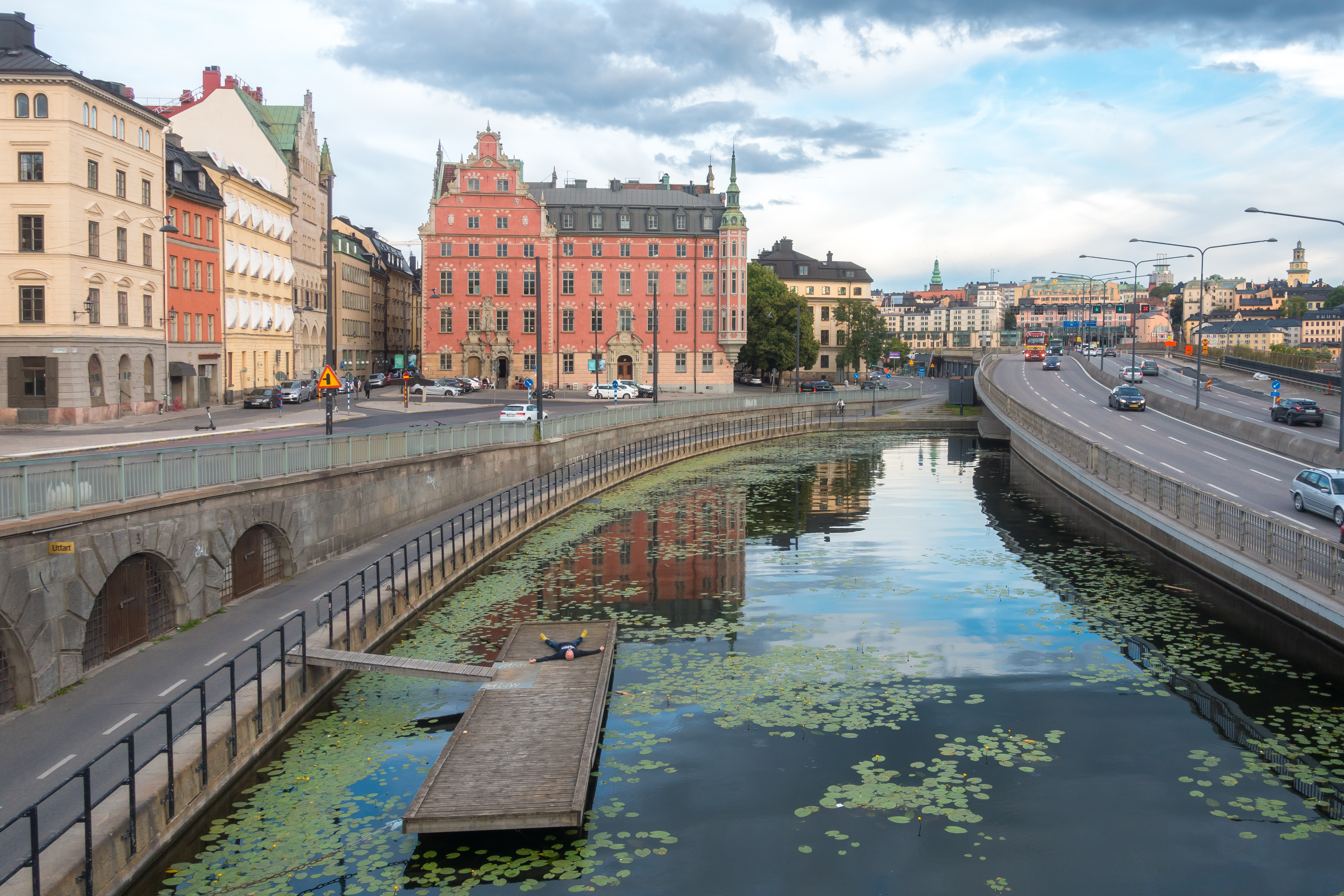 The Riddarholm Canal seen from the Riddarholm Bridge to the south. In the fund Petersenska huset at Munkbron.